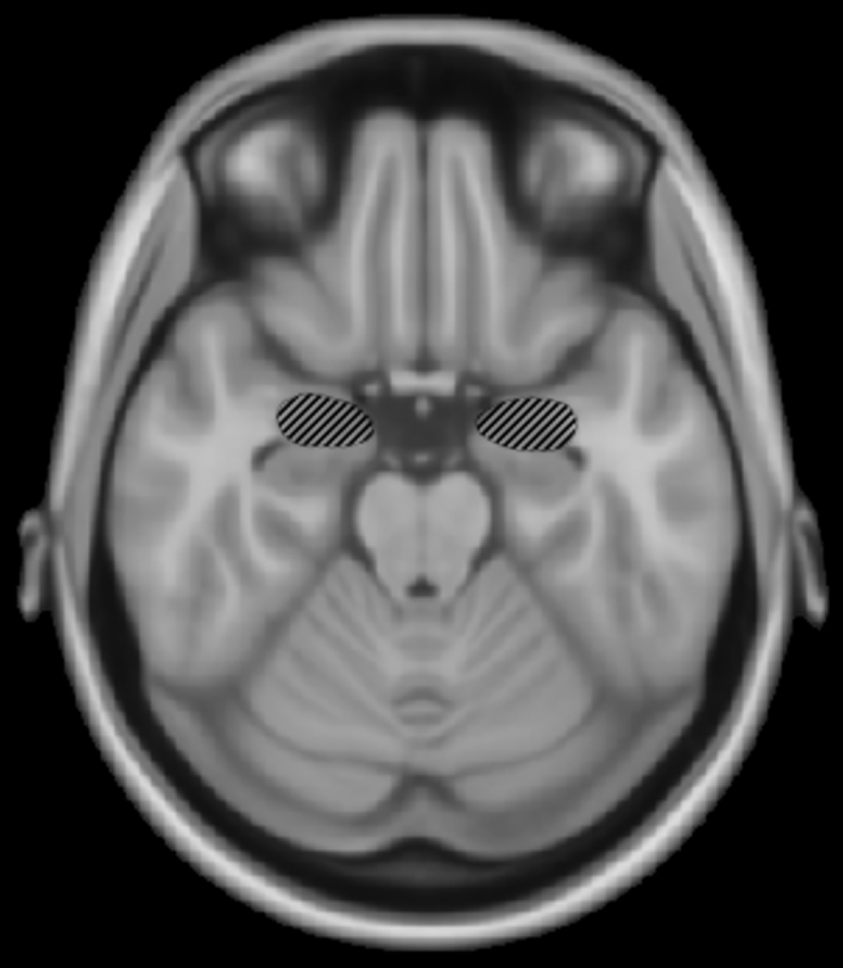 Amygdala. Part of the social brain.